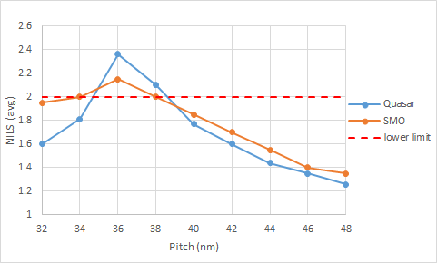 The EUV SMO performance based on normalized image log-slope (NILS) optimization for 32 nm pitch logic metal layout and through-pitch structures is only successful for 34-38 nm pitch (NILS = 2.0-2.15), while not satisfactory for other pitches, even though the target was 32 nm. Ref.: R-H. Kim et al., Proc. SPIE 9771, 97716R (2016).